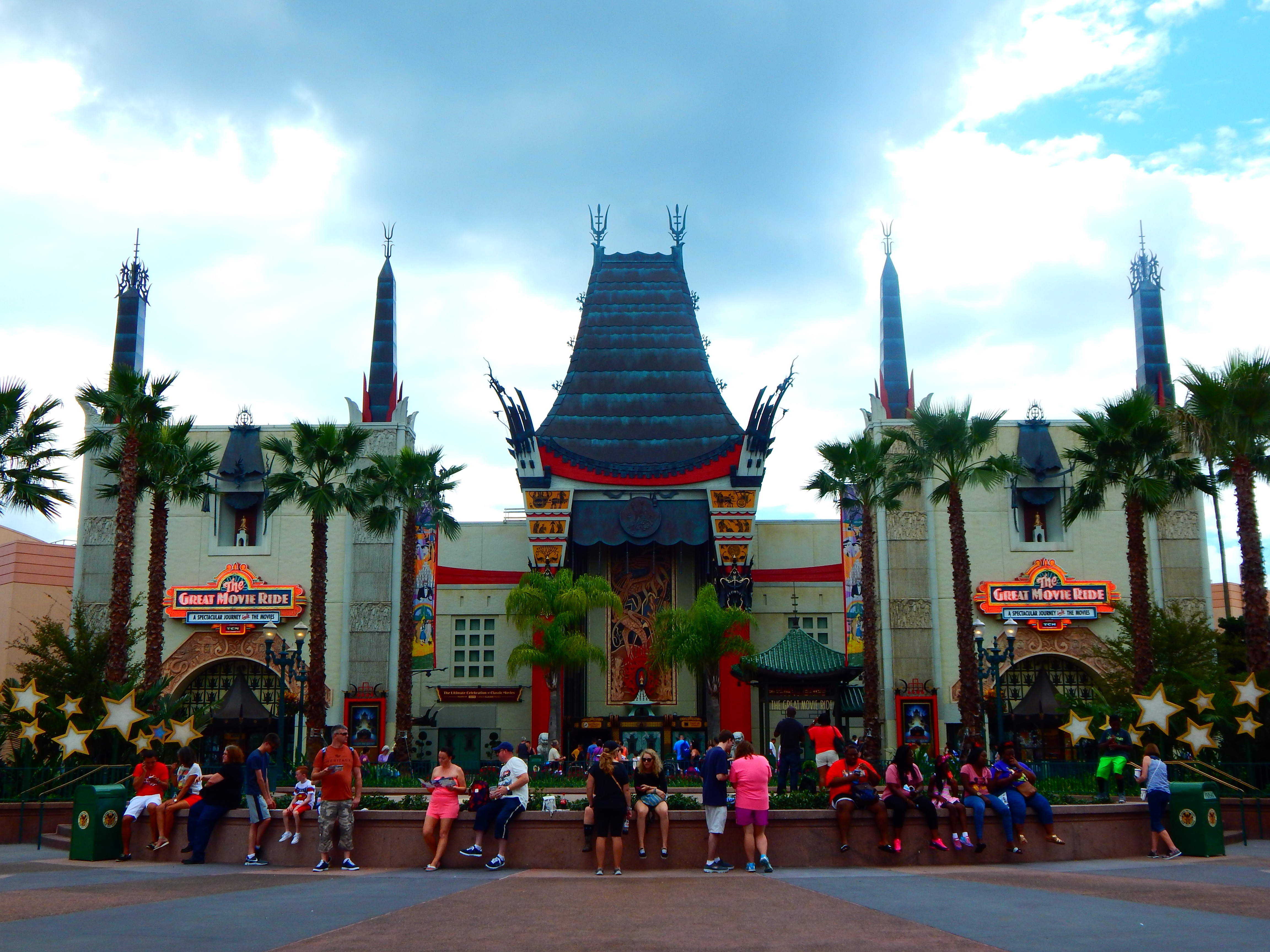 Disney's Hollywood Studios, October 2015